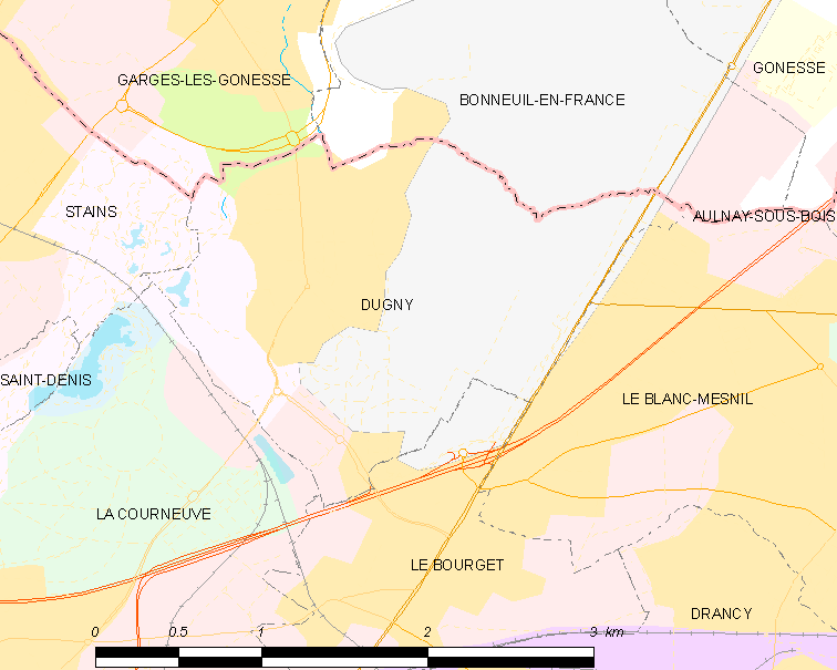 Map of French municipality Dugny